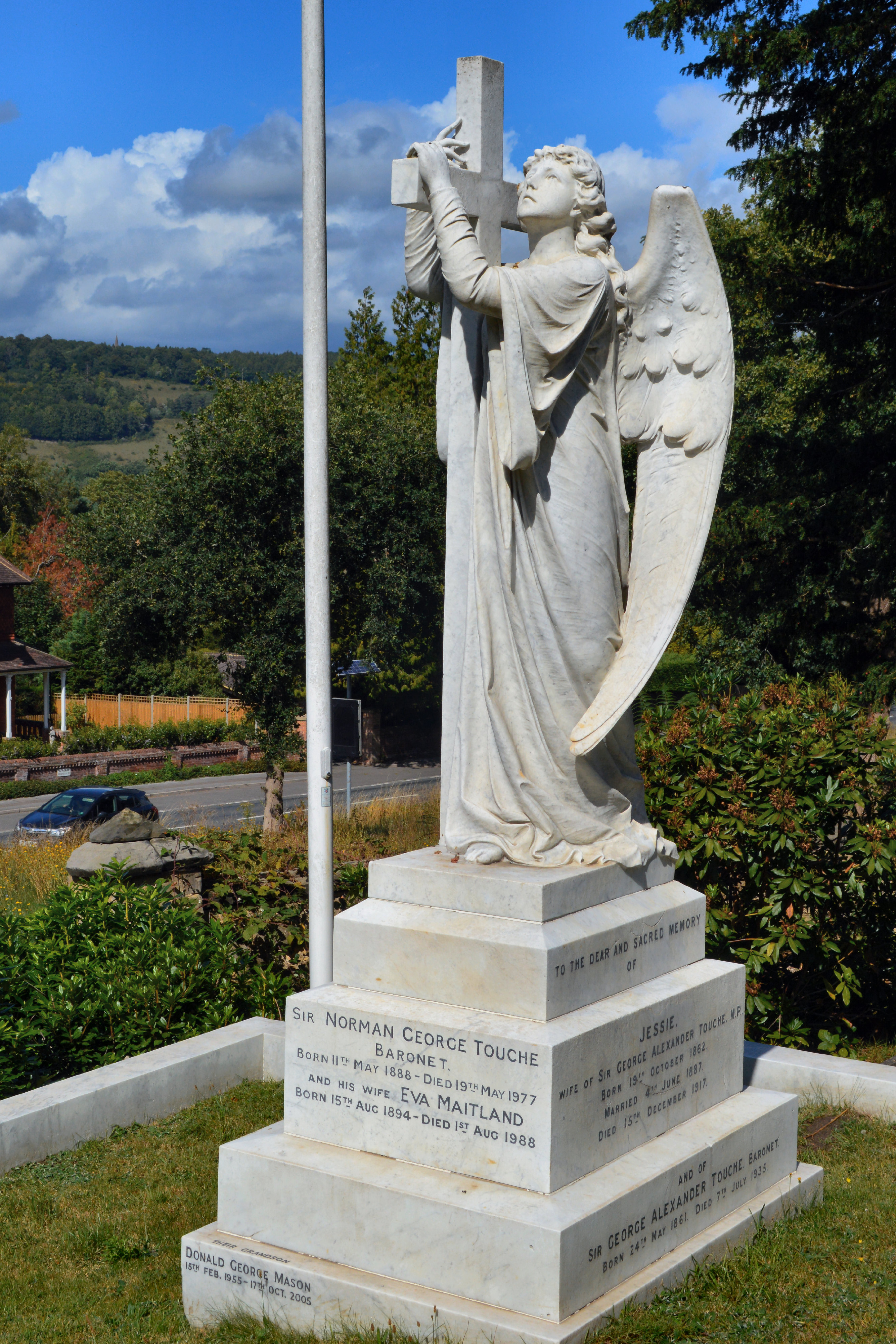 Westcott, Holy Trinity Church, Angel on tomb of Sir Norman George Touche, 2nd Baronet (1888–1977)